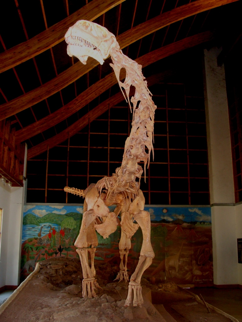 Malawisaurus (Malawi lizard) at the Karonga Museum